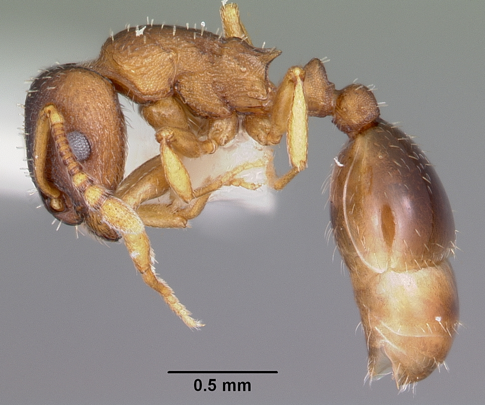 Profile view of ant Leptothorax retractus specimen casent0104798.